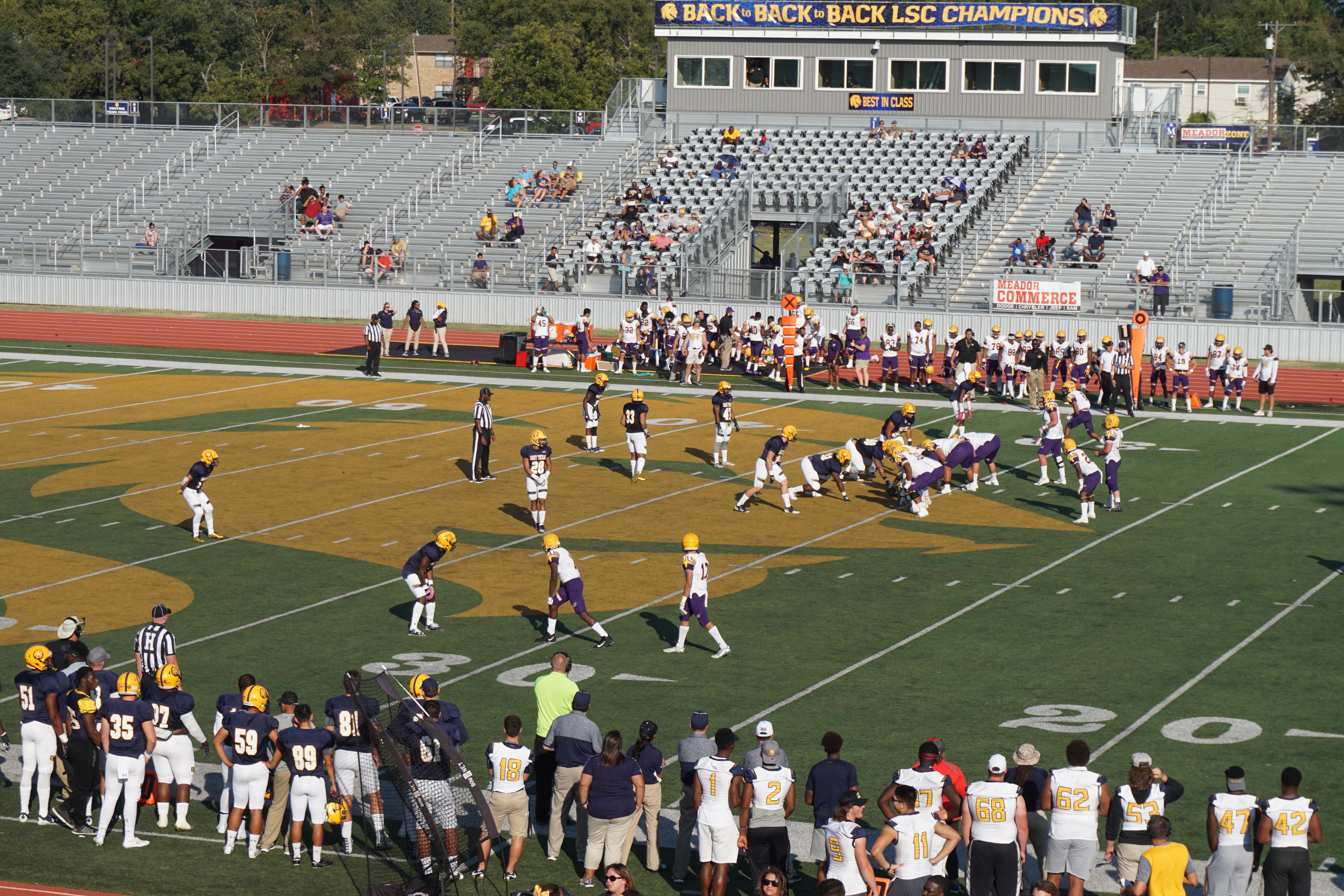 Western New Mexico on offense during the Western New Mexico Mustangs vs. Texas A&M–Commerce Lions football game at Memorial Stadium in Commerce, Texas (United States). A&M–Commerce won 52–3.